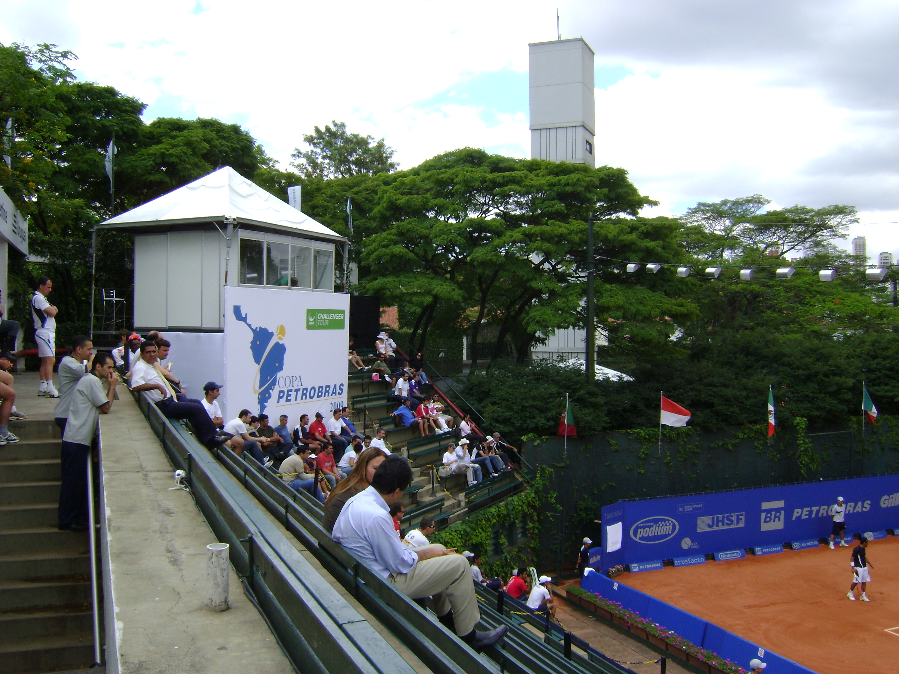 Petrobras Cup, São Paulo (Challenger tennis event), 2009